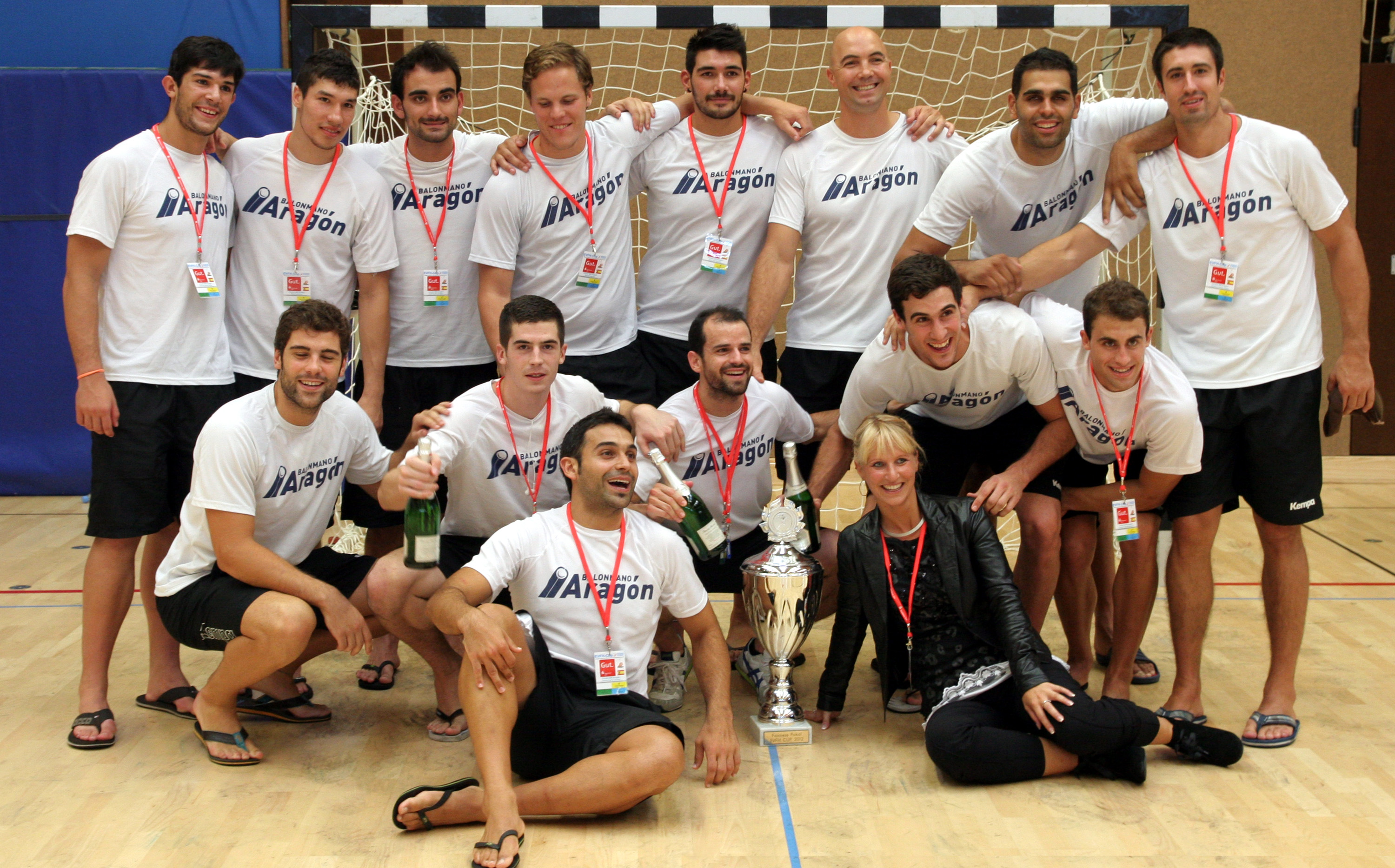 The Team of BM Aragón on August 20th, 2012 in Ehingen (Germany), during the EVFH-Cup (formerly known as Schlecker Cup).